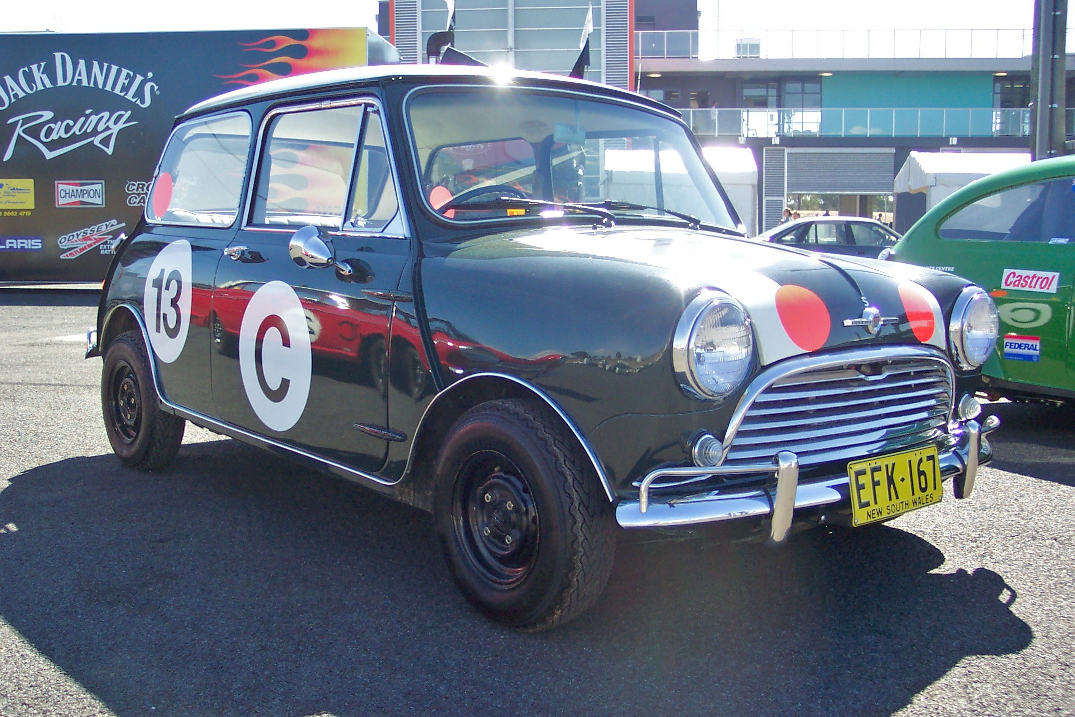 1966 Morris Mini Cooper S sedan. Outright winner of the 1966 Gallaher 500 race at Mount Panorama Bathurst, driven by Australian production car racer Bob Holden and Finnish rally driver Rauno Aaltonen. The 1966 race was dominated by Minis, with the Cooper S claiming the first 9 outright positions. The best of the other cars to finish were two Chrysler VC Valiant V8s (automatics) in 10th and 11th positions (first and second in Class D). This car is now displayed at the National Motor Racing Museum at the Mount Panorama circuit. Taken at the inaugural Bathurst International Motor Fest 2006, held at Mount Panorama Bathurst.